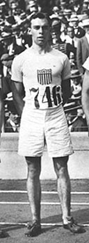 Norman Taber, athlet, medalwinner and Olympic Champion at the 1912 Olympic Games photography, adapted reproduction, no restrictions on use Copyright: free of charges